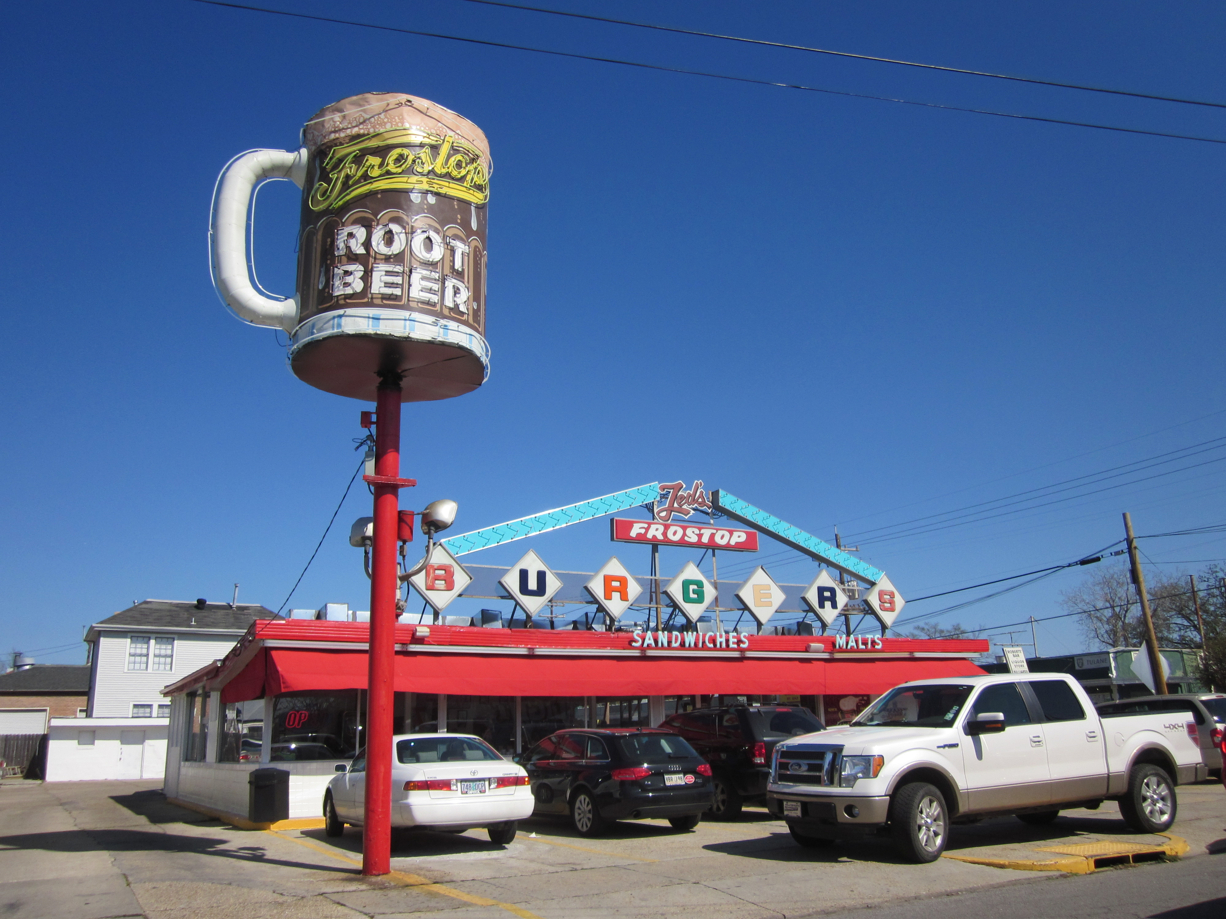 New Orleans. Ted's Frostop, at the intersection of Claiborne, Miro, & Calhoun. Renovation has placed the mug back atop the pole for the first time since it was knocked down by Katrina in 2005. The mug now rotates again too.